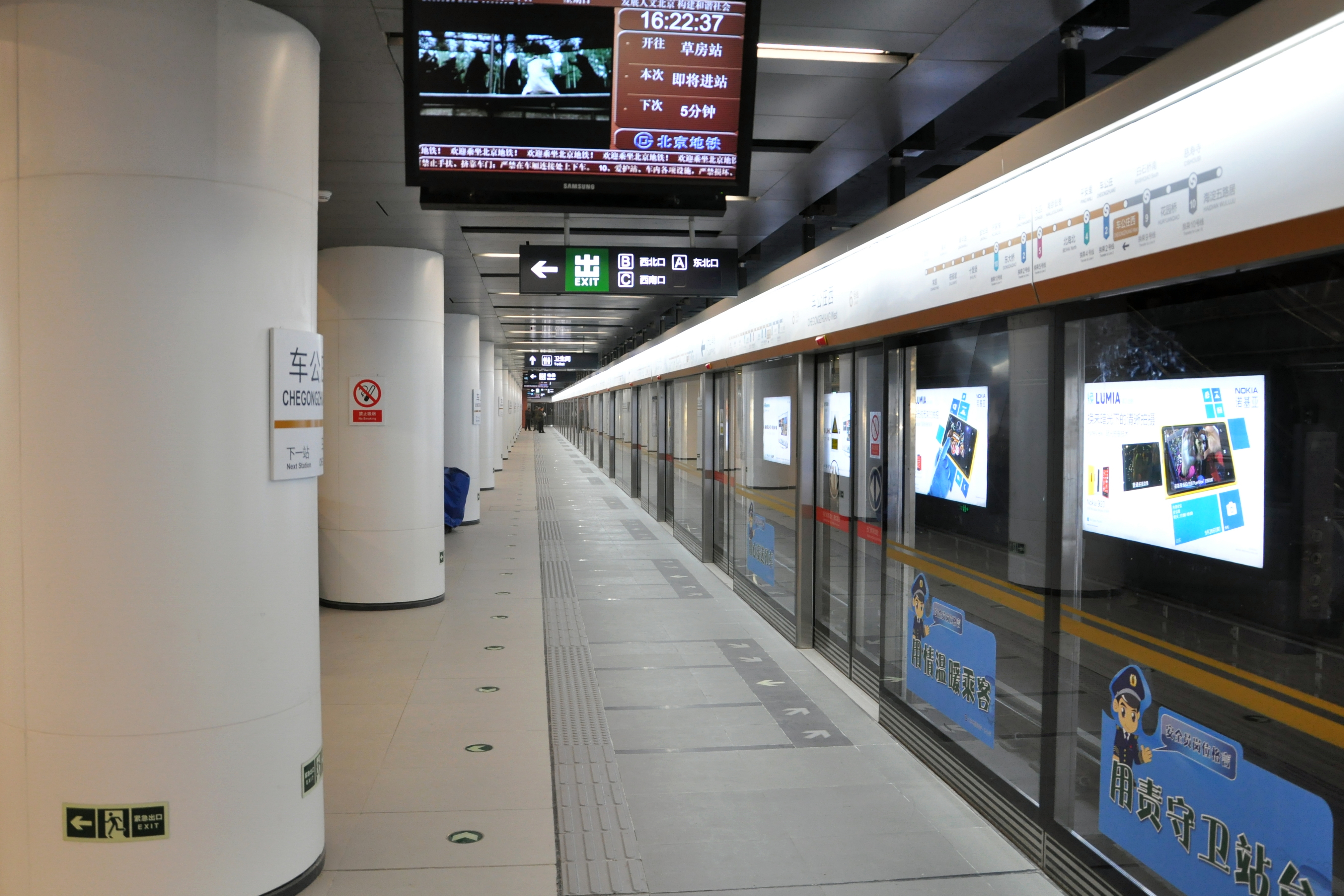 Platform of Chegongzhuang West station, Line 6, Beijing Subway.